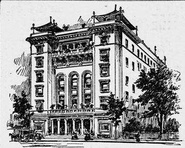 An architect's drawing of the Lafayette Square Opera House, 1895.